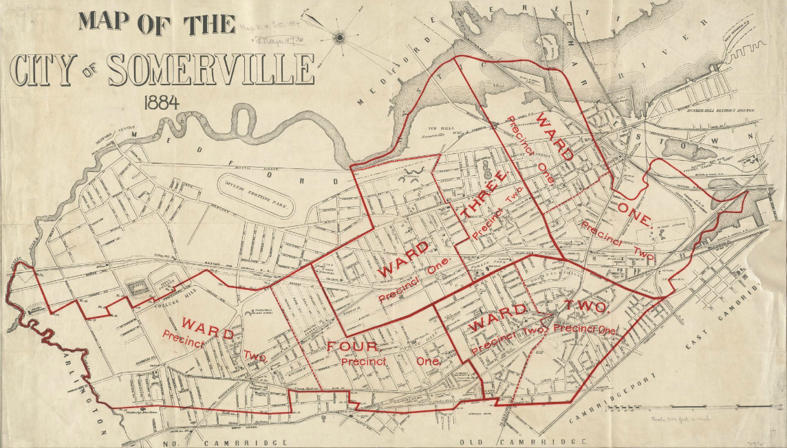 Map of the city of Somerville, Mass., USA Date: 1884 Location: Somerville (Mass.) Dimension 43 x 75 cm. Scale: 1:9,600